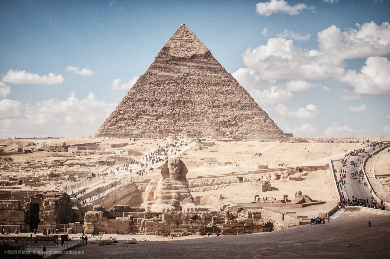 Pyramid of Khafre and Sphinx, Giza, Greater Cairo, Egypt.